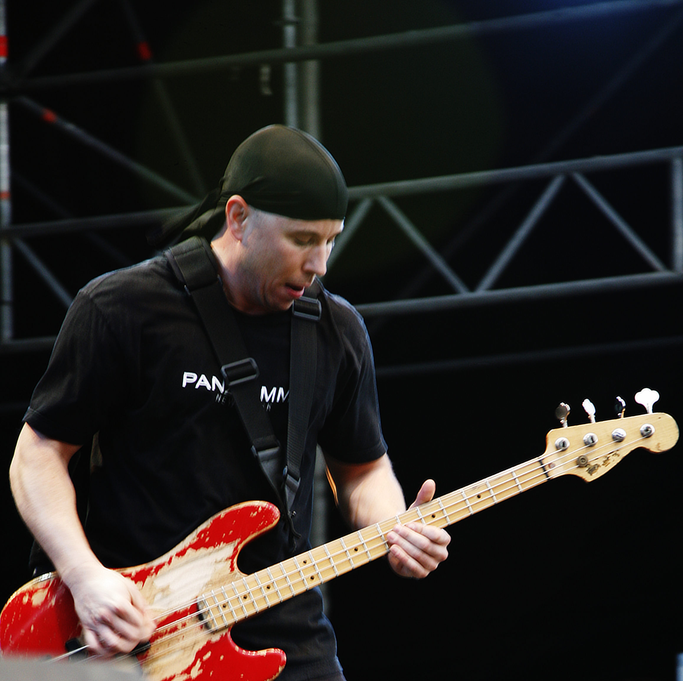 Sick of It All at the Eurockéennes of 2007